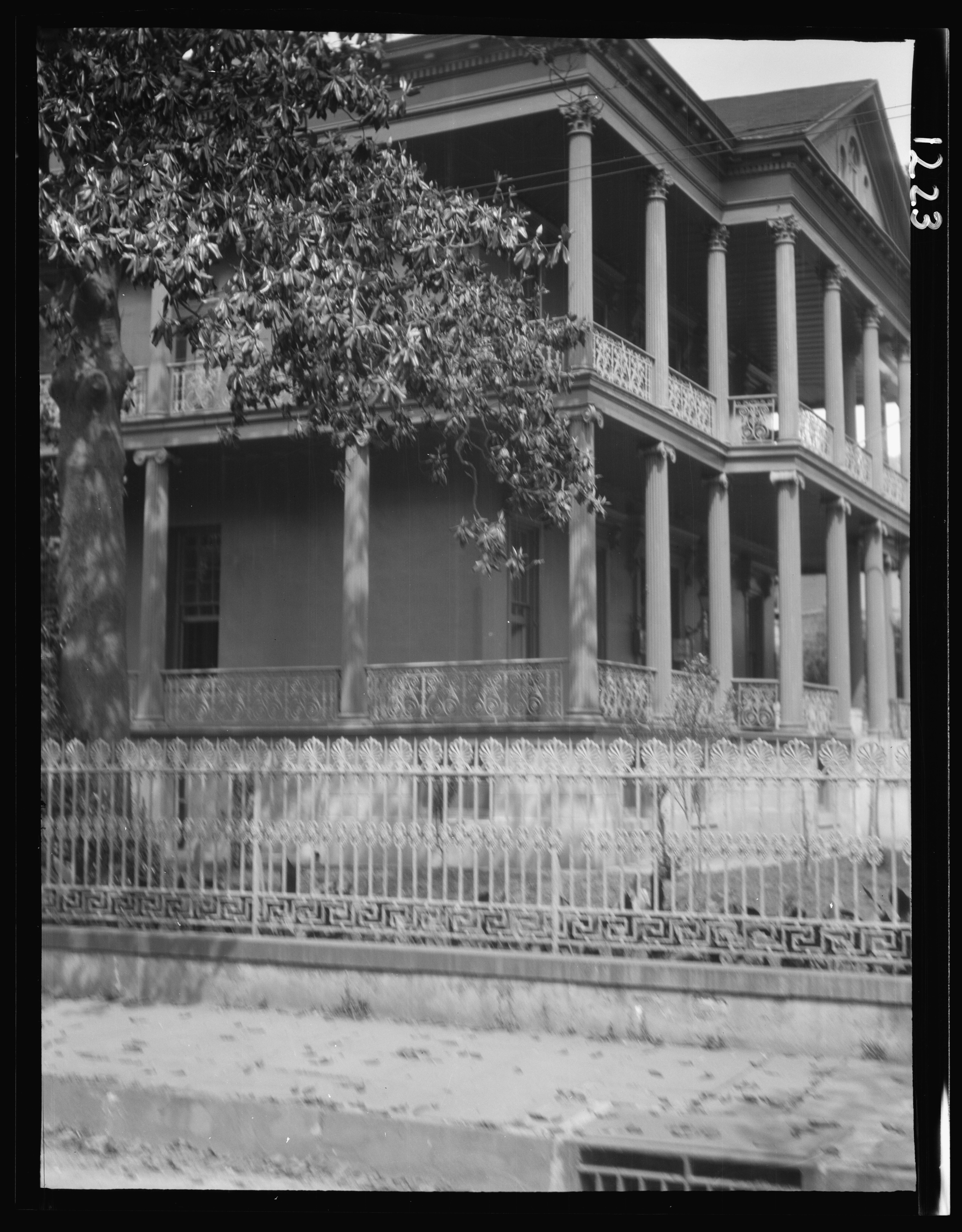 Title: Henry Sullivan Buckner House, 1410 Jackson Avenue, New Orleans Abstract/medium: Genthe, Arnold, 1869-1942, photographer. Physical description: 1 negative